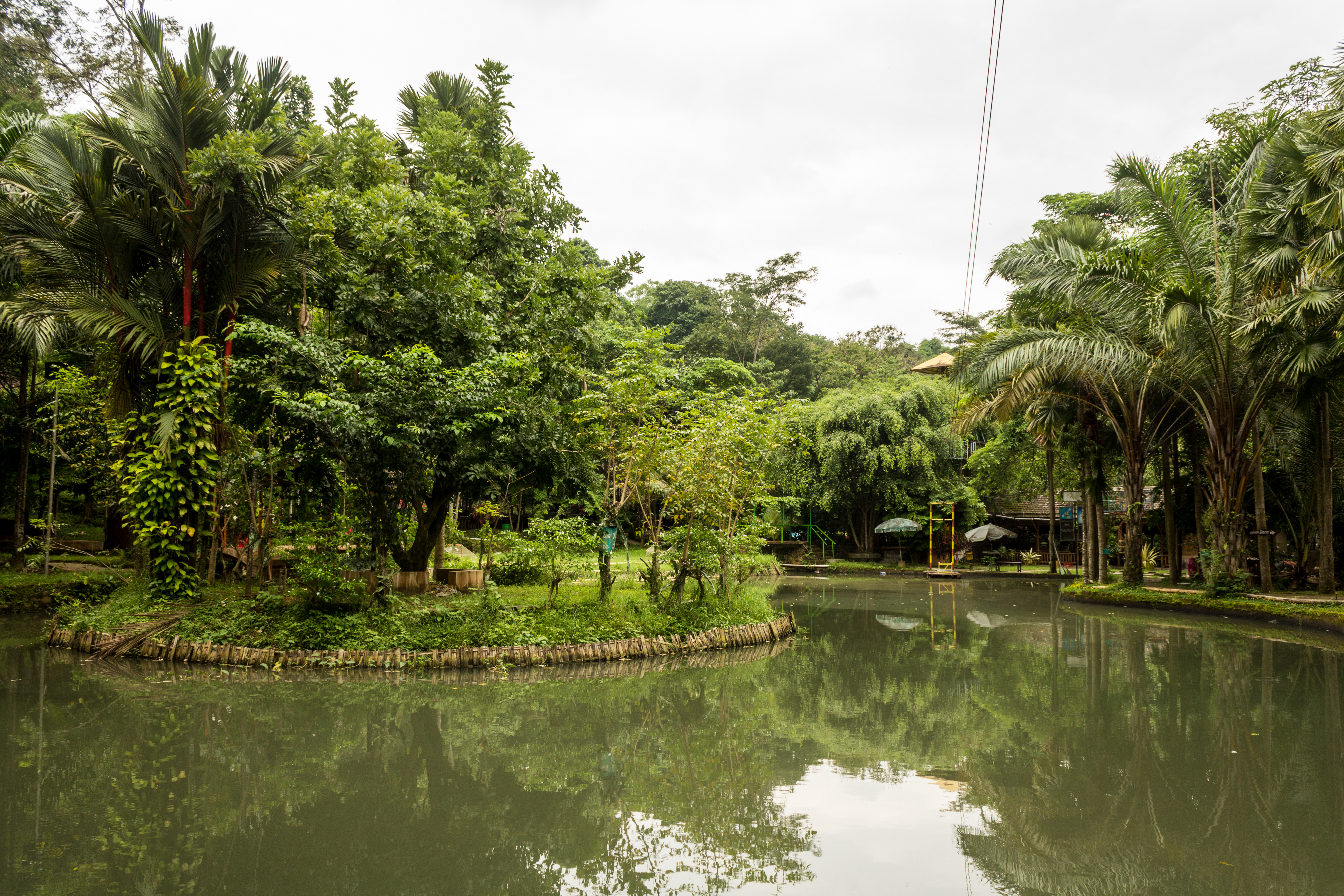 Pool at Sukorambi Botanical Garden, Jember